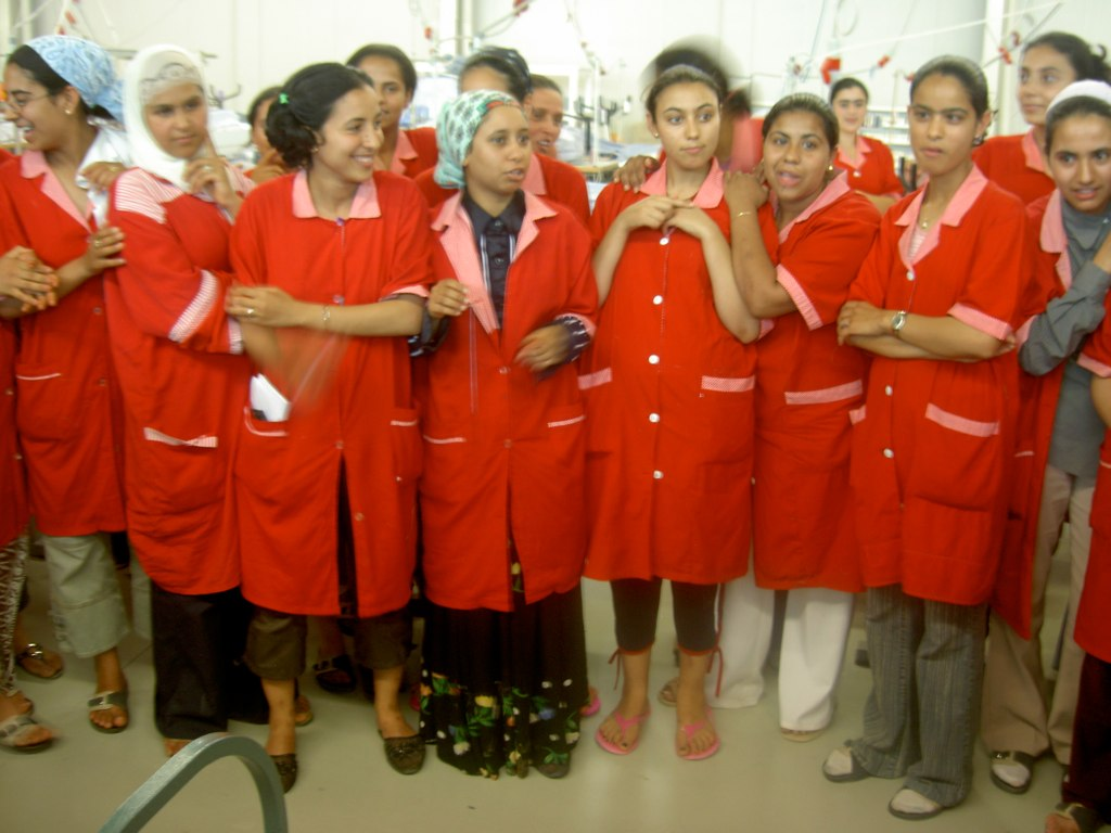 Women working at the TexTunis factory in Soliman, Tunisia